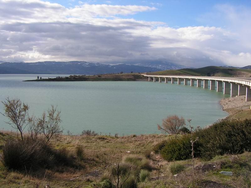 Diga di Monte Cotugno